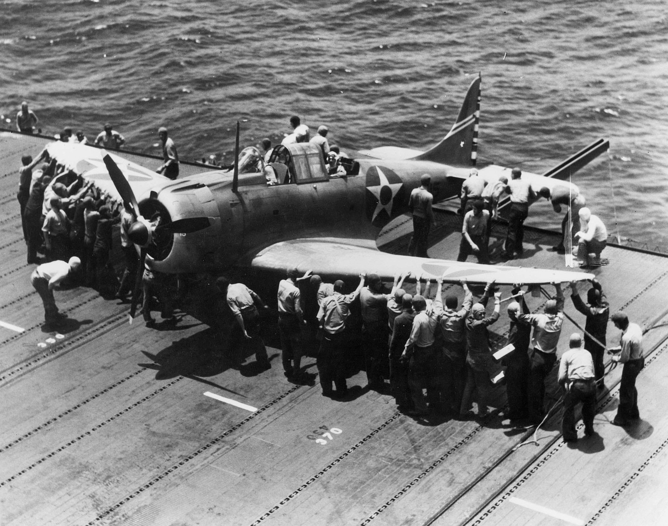 U.S. Navy flight deck personnel maneuver a Douglas SBD-3 Dauntless of bombing squadron VB-6 onto a deck edge wheel mount on the aircraft carrier USS Enterprise (CV-6), 17 April 1942. This allowed for more room on the flight deck. The SBD-3 6-B-15 (BuNo 4542) was flown during the Battle of Midway by Ensign George H. Goldsmith, pilot, and Radioman 1st Class James W. Patterson, Jr. It was damaged during the attack on the Japanese aircraft carrier Kaga on 4 June 1942 and landed on the USS Yorktown (CV-5) as it was low on fuel. It was later lost with the carrier.